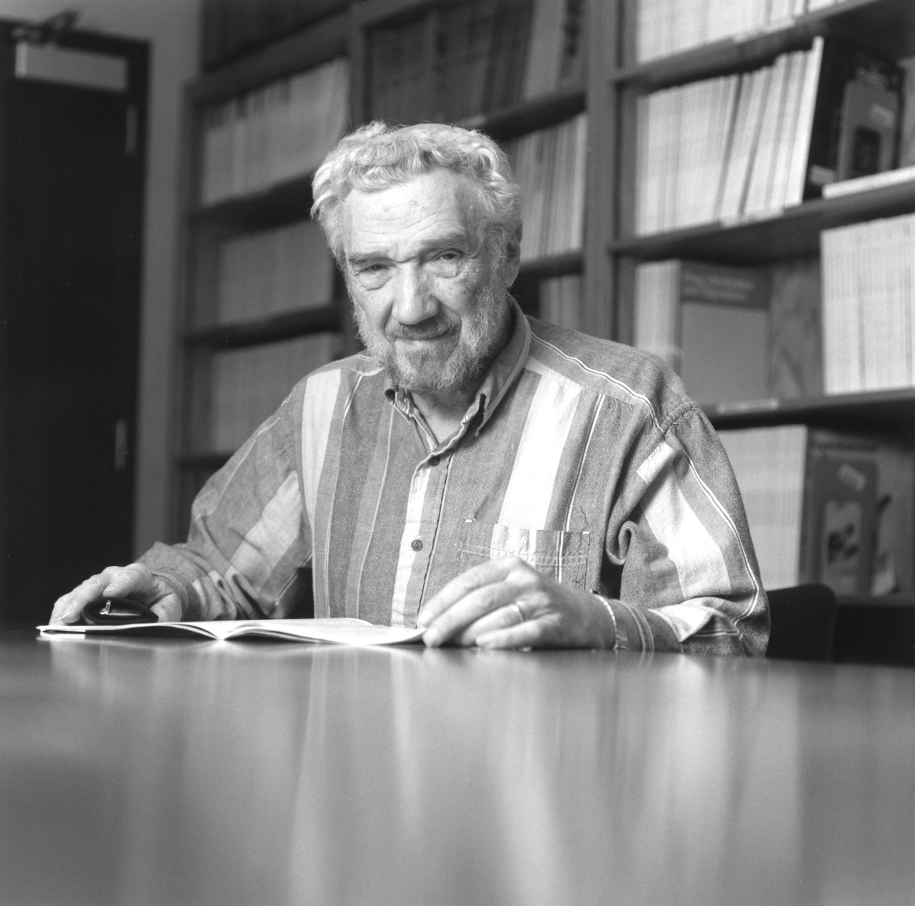 Title Gelboin, Harry Description Portrait Topics/Categories National Cancer Institute, People Type B&W, Photo Source National Cancer Institute